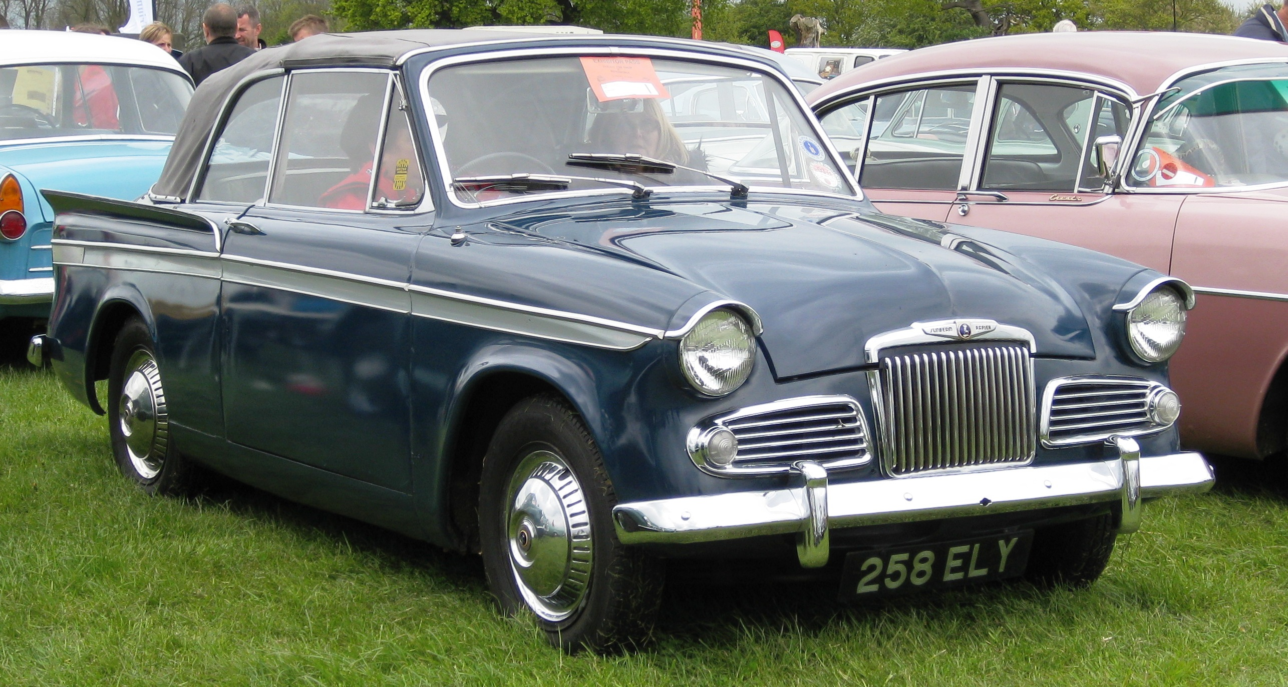 Sunbeam Rapier convertible at Battlesbridge Classic car Show